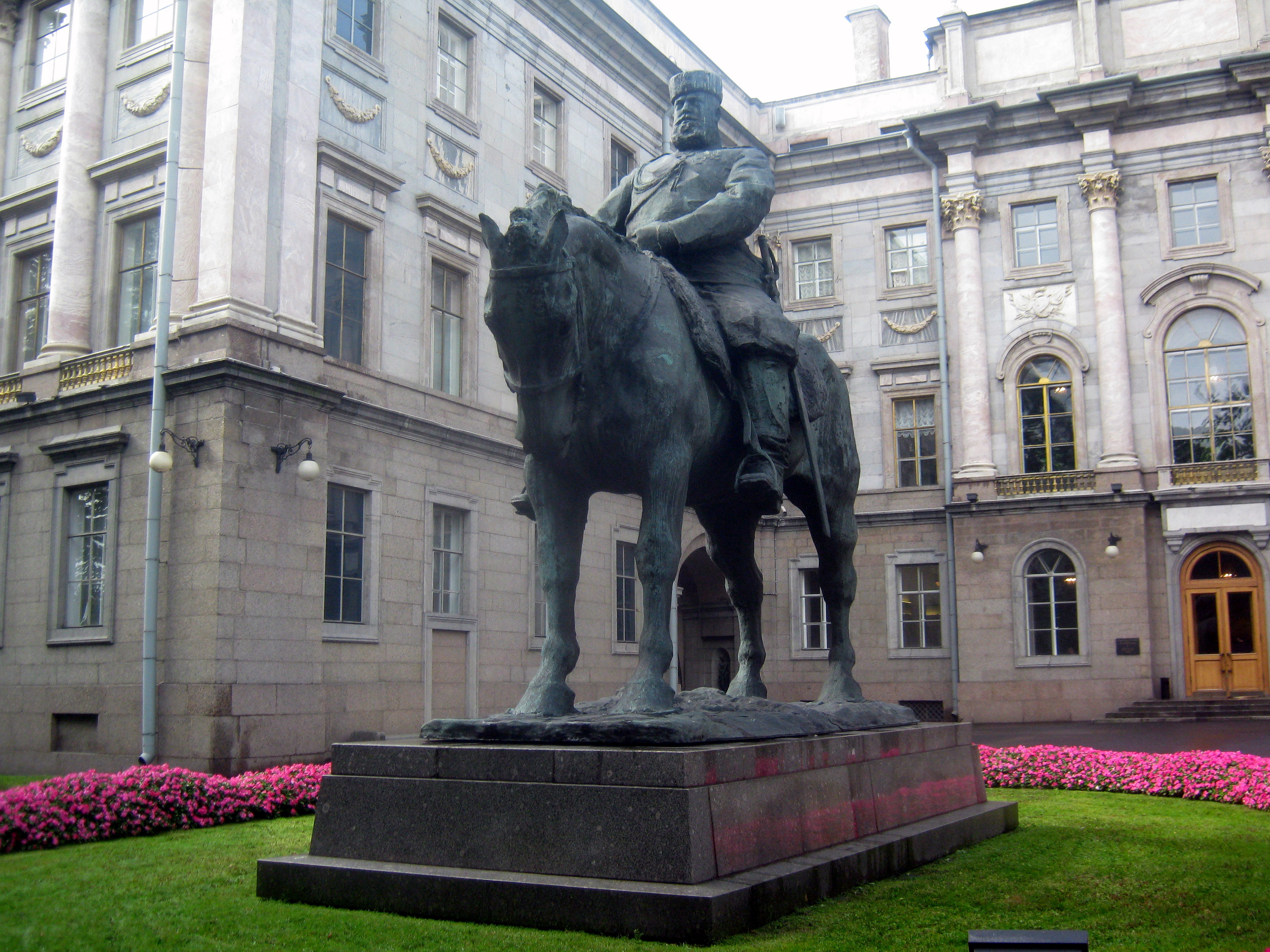 The equestrian statue of Alexander III by Paolo Trubetzkoy in its present location in front of the Marble Palace, St. Petersburg